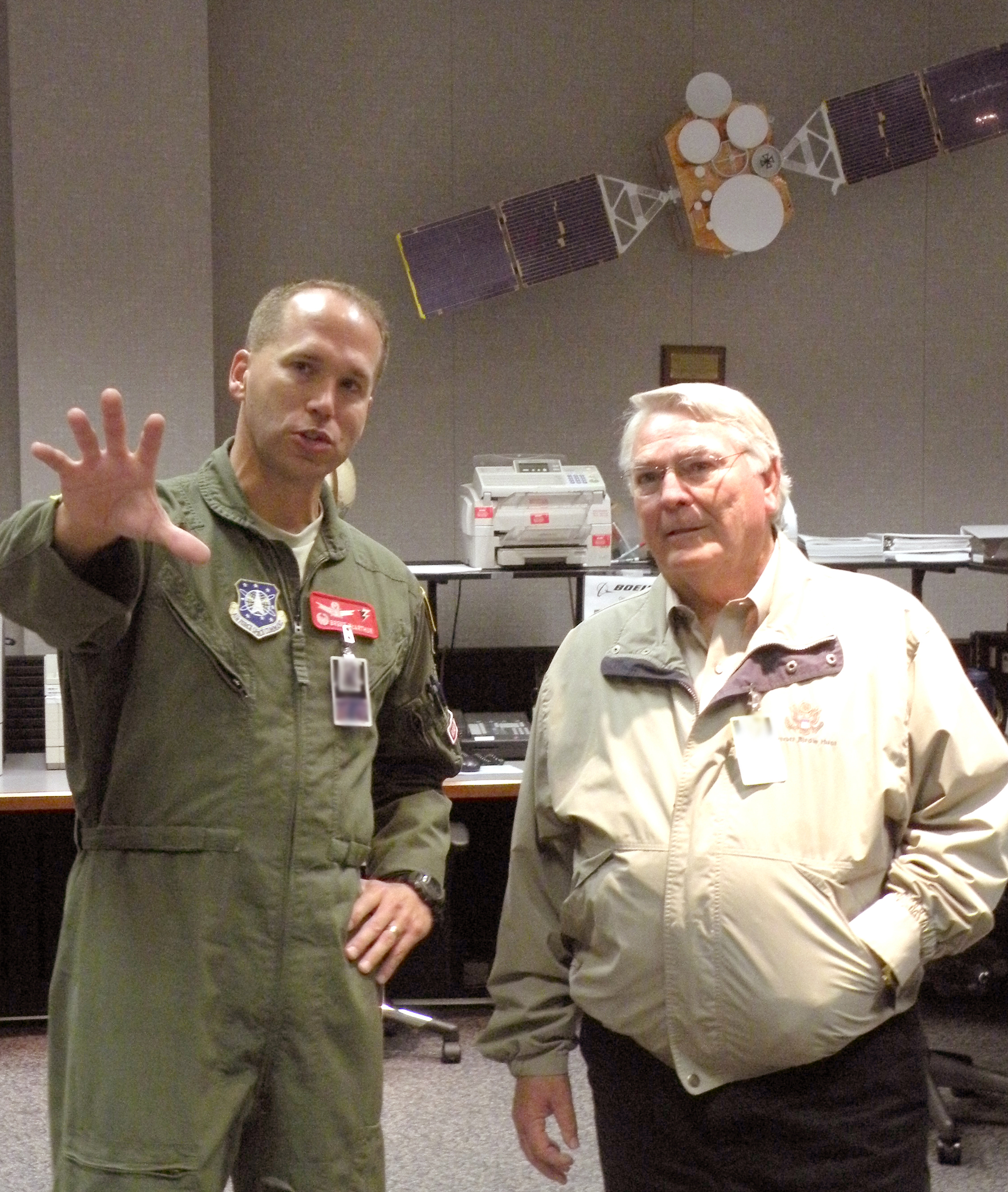 SCHRIEVER AIR FORCE BASE, Colo. - Lt. Col. Brent McArthur, 3rd Space Operations Squadron commander, discusses his squadron's mission to Congressman Terry Everett from Alabama, during his visit here Oct. 28. (U.S. Air Force photo/Edward Parsons)